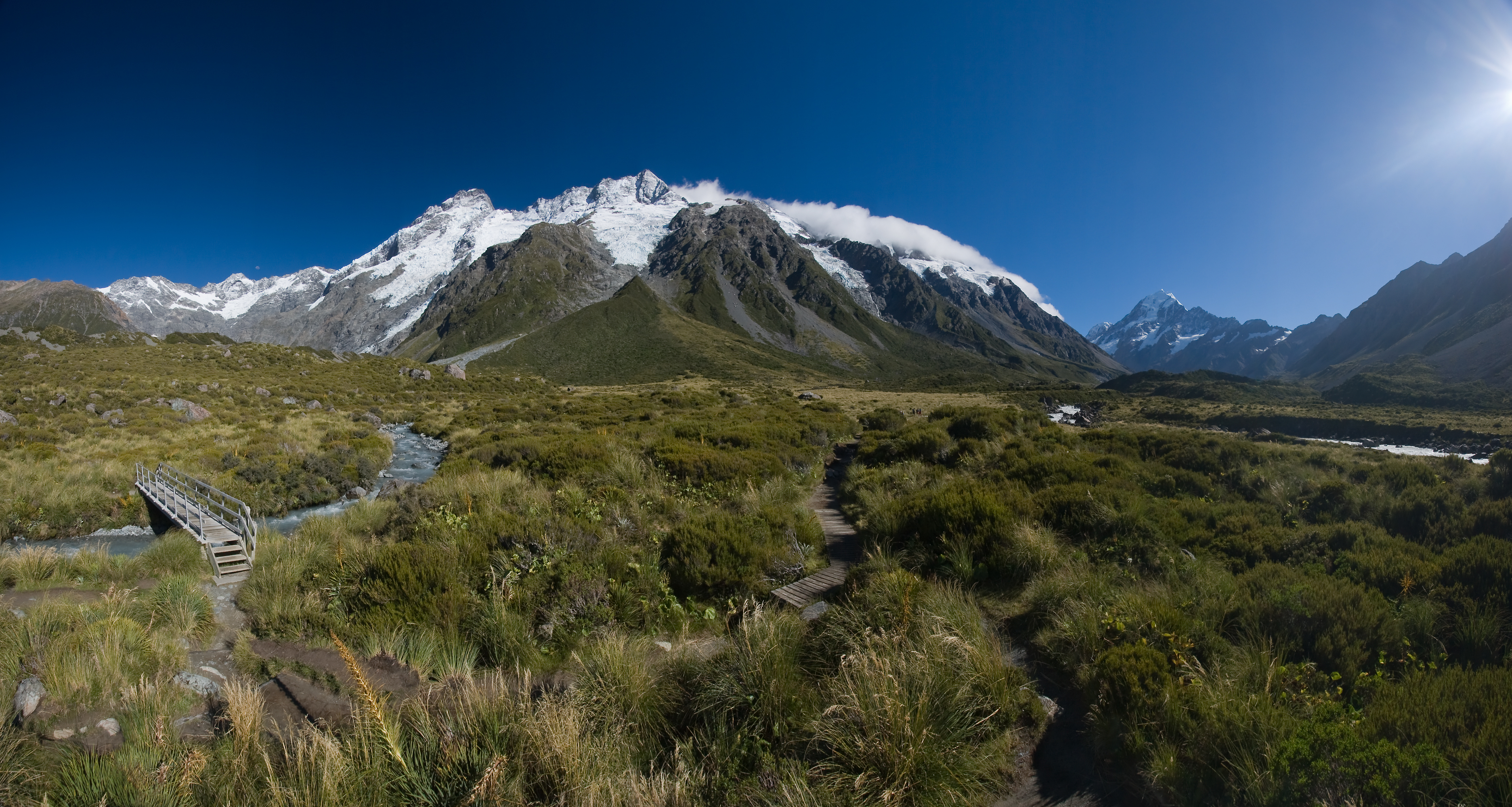 he Main Divide with Mt. Sefton and The Footstool, view from Hooker Valley. On the right side in the background the highest peak in New Zealand - Mt. Cook. Panorama stitched from 5 portrait format images. Some lens flares ans the shadow of the tripod were removed in post-processing.